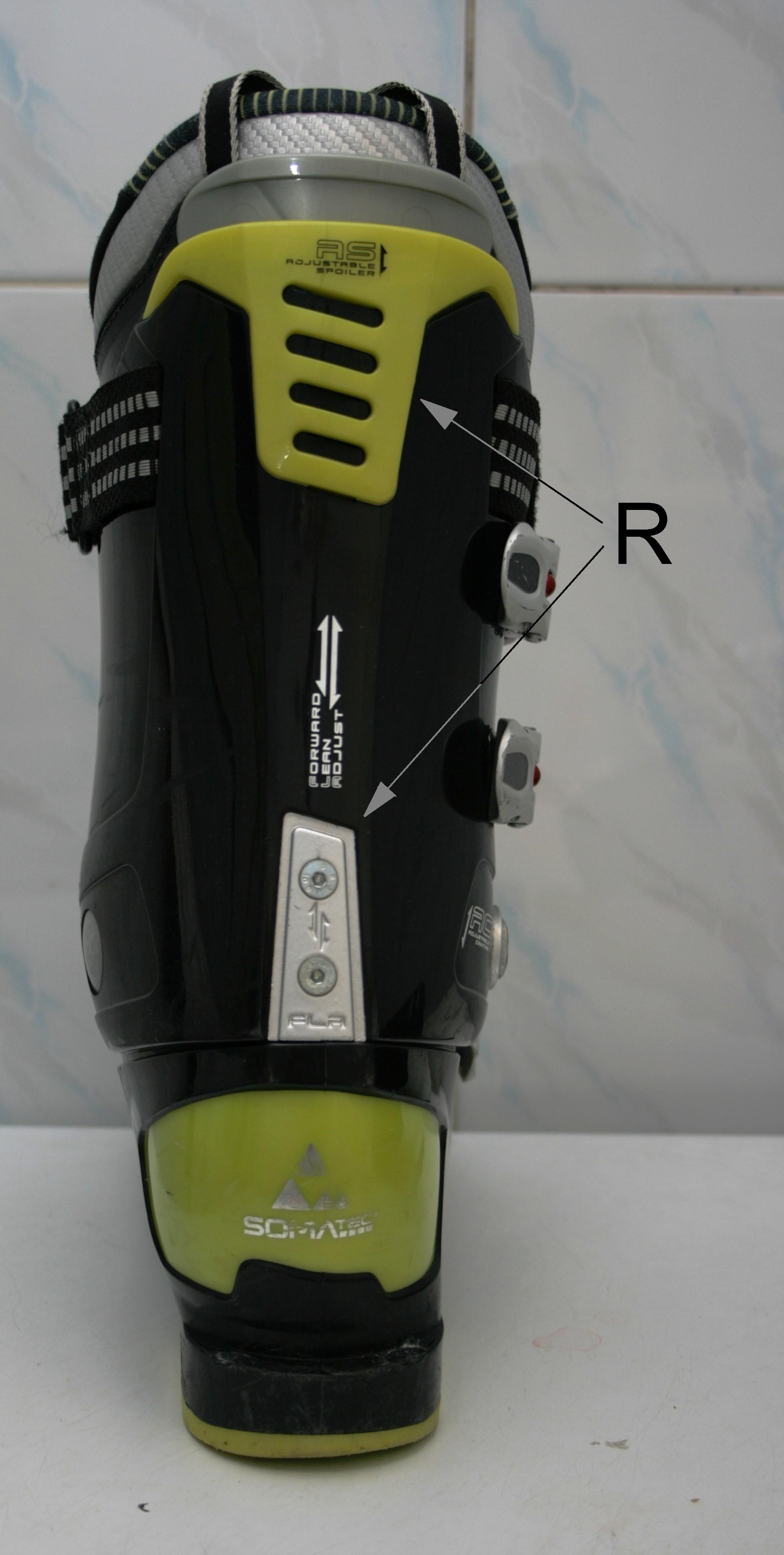 ski boot - rear view, R - adjustable lean forward